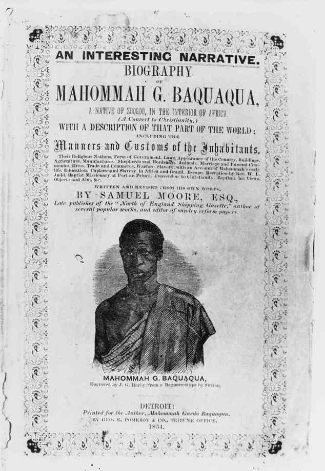 Mahommah Gardo Baquaqua on the book cover of Baquaqua's auto-biography published in 1854 and titled,"Biography of Mahommah G. Baquaqua,"Taken from Africa and sold into slavery in Brazil, Baquaqua’s tale of escape to freedom in New York is the only known story of its kind, an in-depth, firsthand account of slavery in the South America country.